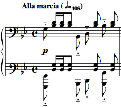 Sergei Rachmaninoff's piano Prelude in G minor, Op. 23, No. 5